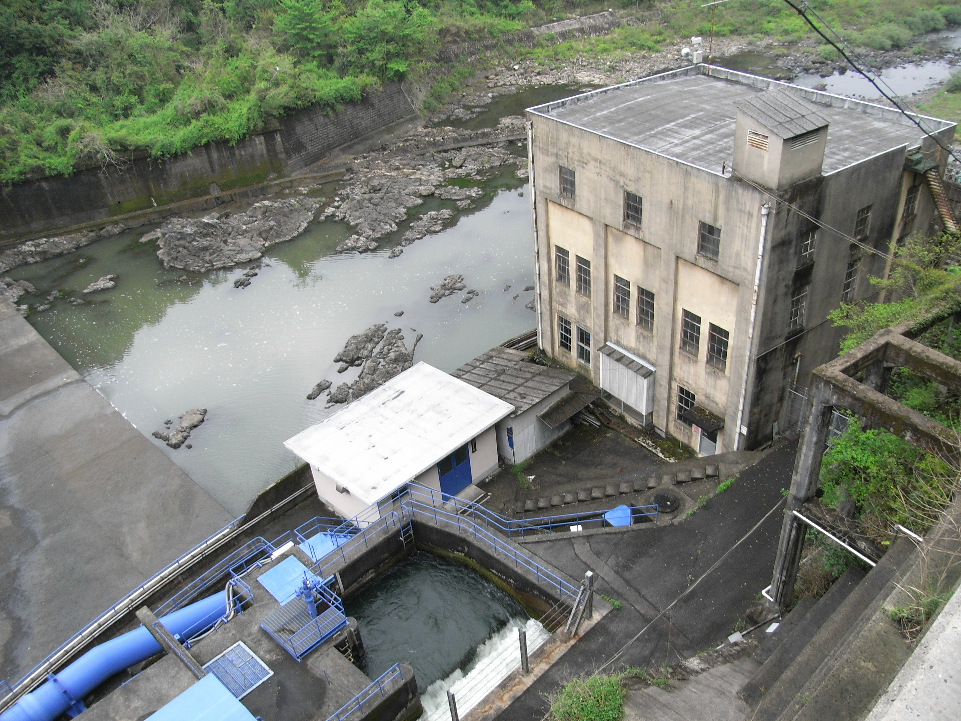 a Valley, Kotougawa Hydroelectric Powerplant